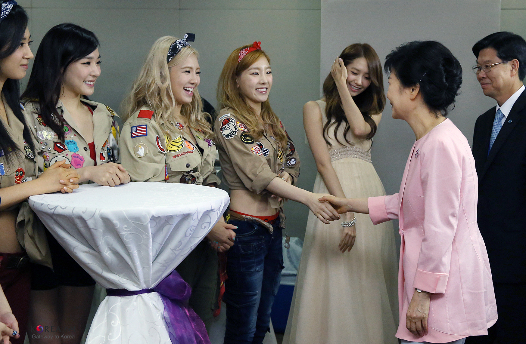 President Park Geun-hye’s state visit to China Photo=Cheong Wa Dae (Related Article) Presidential visit opens new era in Korea-China ties Presidential trip to reshape future vision of Seoul-Beijing ties President Park holds 1st Korea-China summit in Beijing 박근혜 대통령 중국 국빈방문 사진=청와대 韩国总统朴槿惠 将对中国进行国事访问 韩国总统朴槿惠访华 打开中韩未来新篇章 朴槿惠同中国国家主席习近平举行首次首脑会谈 韩总统朴槿惠访华 为韩中关系设定新的未来愿景